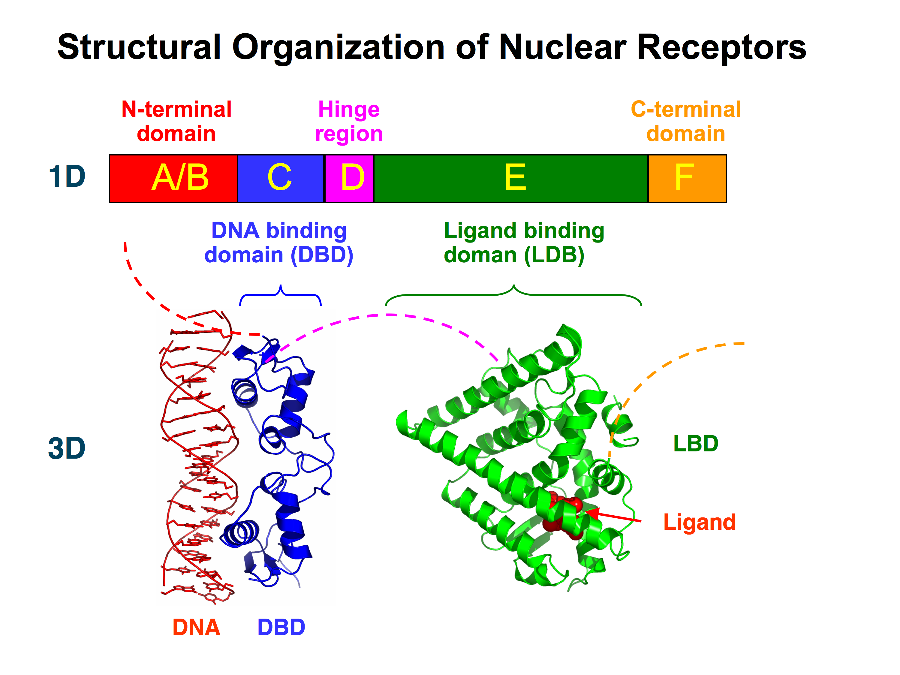 Structural Organization of Nuclear Receptors.